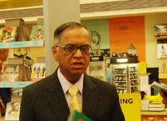 Jessie Paul (left) and Narayana Murthy (centre) at the Crossword, Residency Road.